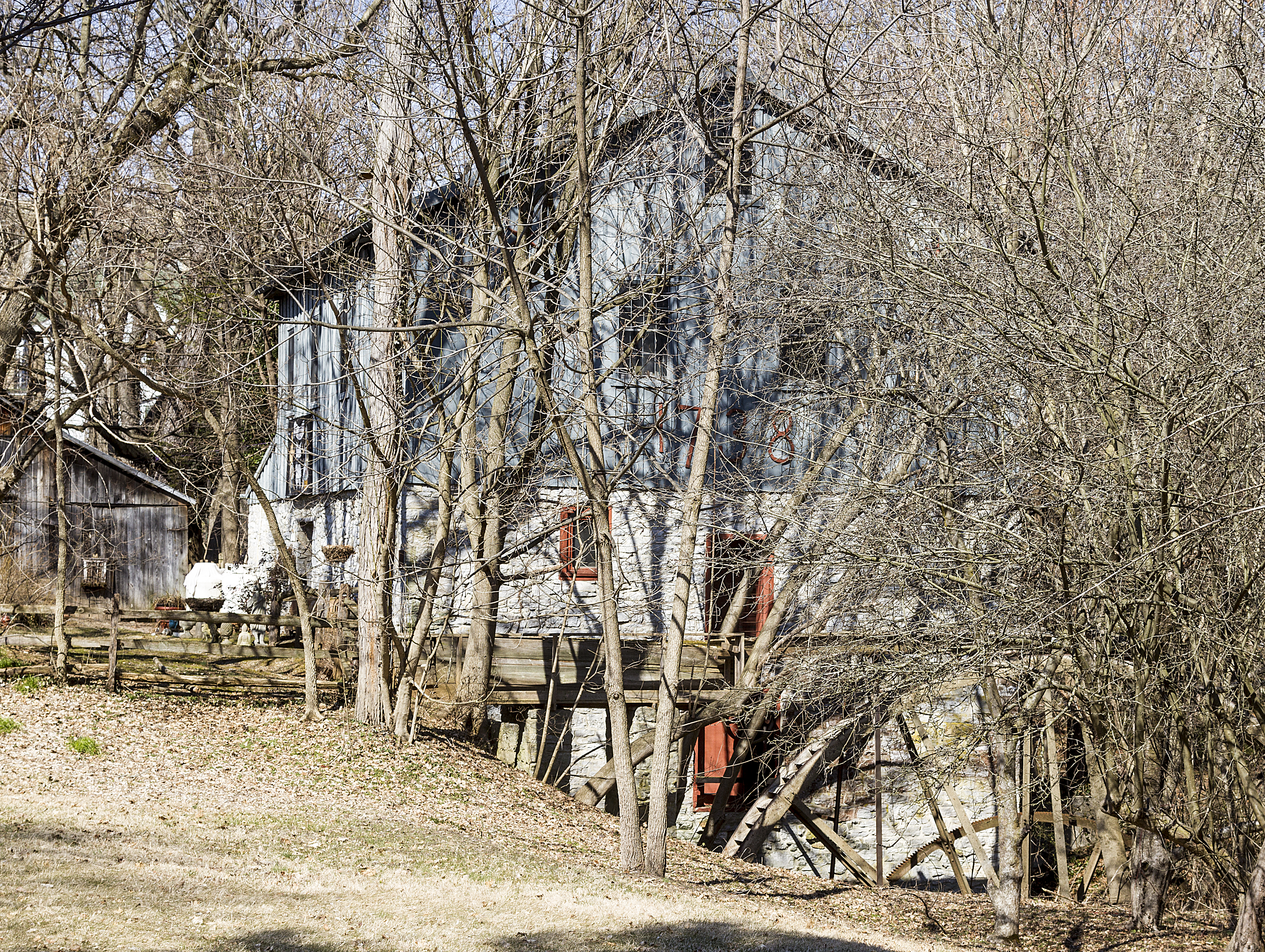 Shepherd's Mill, Shepherdstown, West Virginia, USA